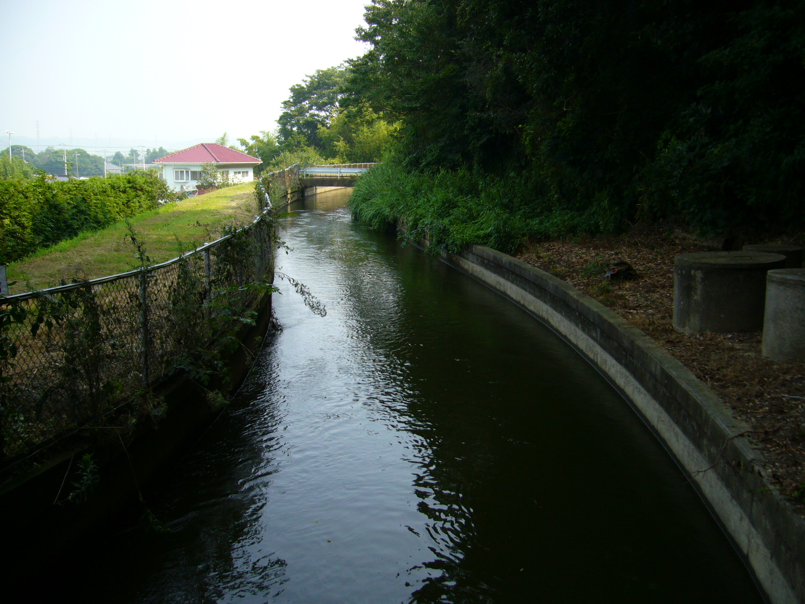 ootone-water-for-irrigation,tonosyo-town,chiba,japan